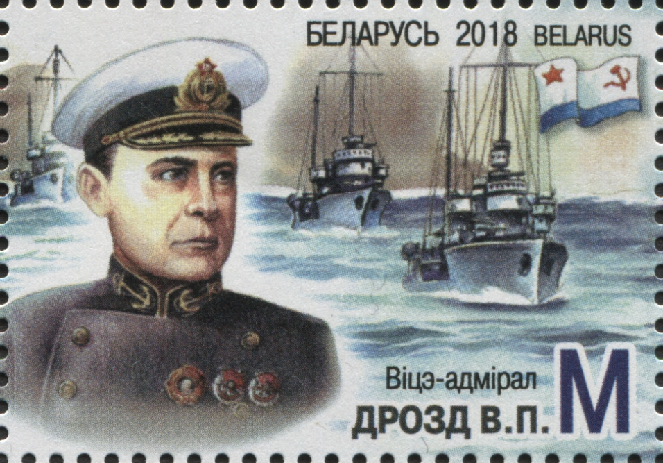 A 2018 Belarus postage stamp depicting Soviet Navy Vice admiral Drozd, Valentin Petrovich; part of a series of stamps on admirals born in Belarus.